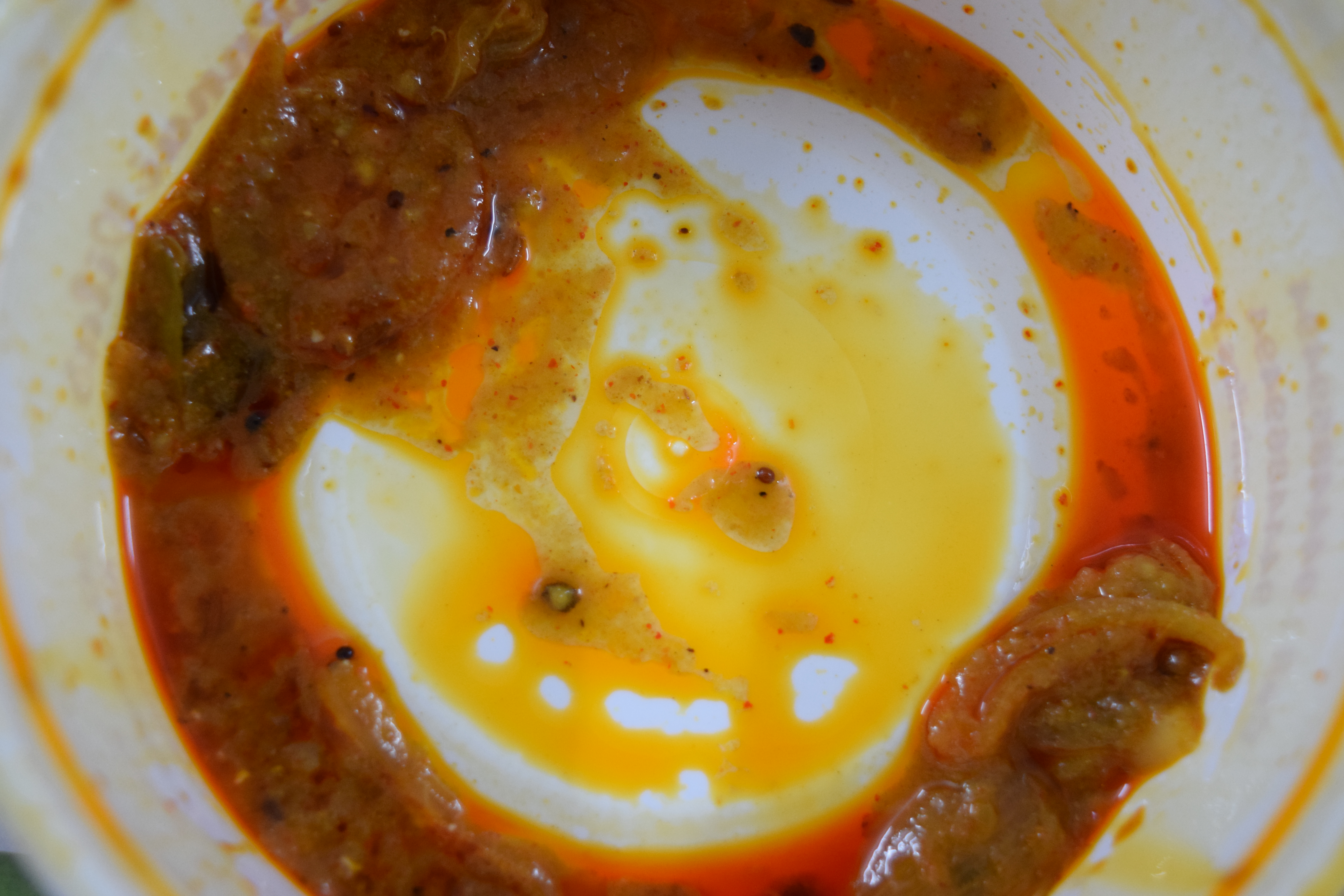 Even left overs are beautiful